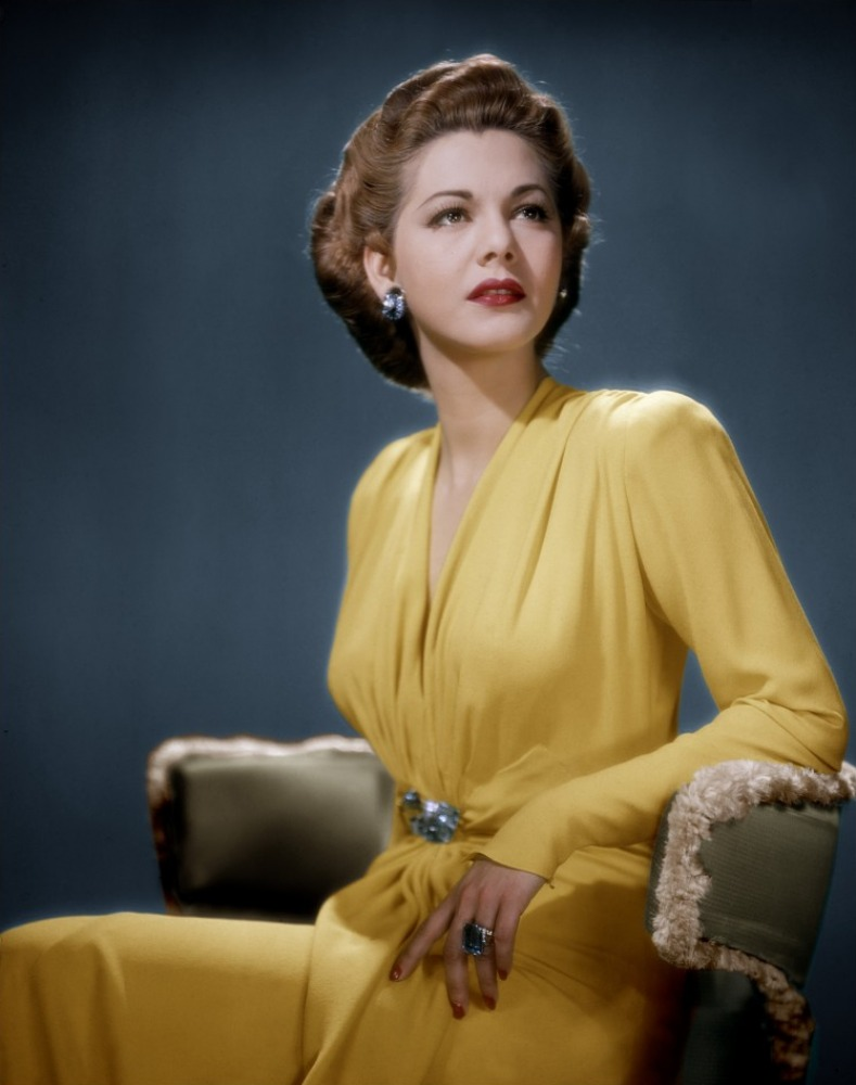 María Montez